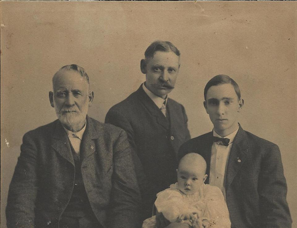 Alexander McRae Dechman born Nova Scotia 18 Oct 1830, Alexander Franklin Dechman born Belnap Texas 22 Nov 1858, Morgan Dechman born Dallas Texas 25 Aug 1885, and Thomas Alexander Dechman born in Indian Territory now called Oklahoma City 11 Nov 1905